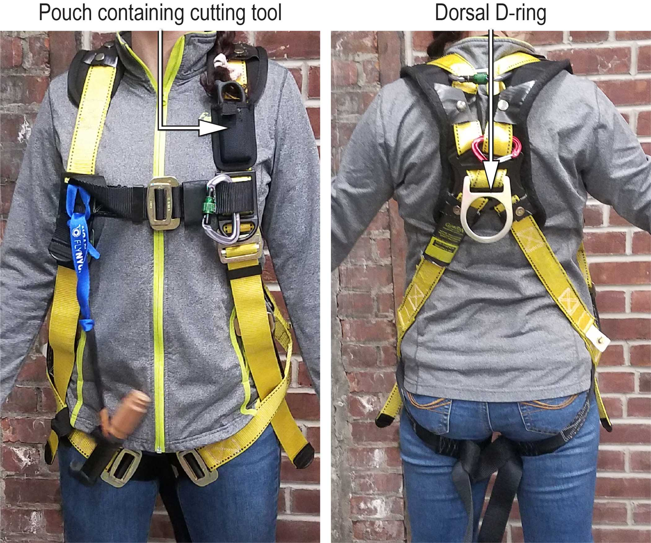 WASHINGTON (Dec. 10, 2019) Photo of the front and rear view of an exemplar NYONair harness. Investigators probing the March 2018 crash of an AS250 helicopter into New York City's East River determined that such harnesses, attached to a tether that was attached to the helicopter and secured by two separate locking carabiners, interfered with flight operations and hampered emergency escape. (NTSB photo)